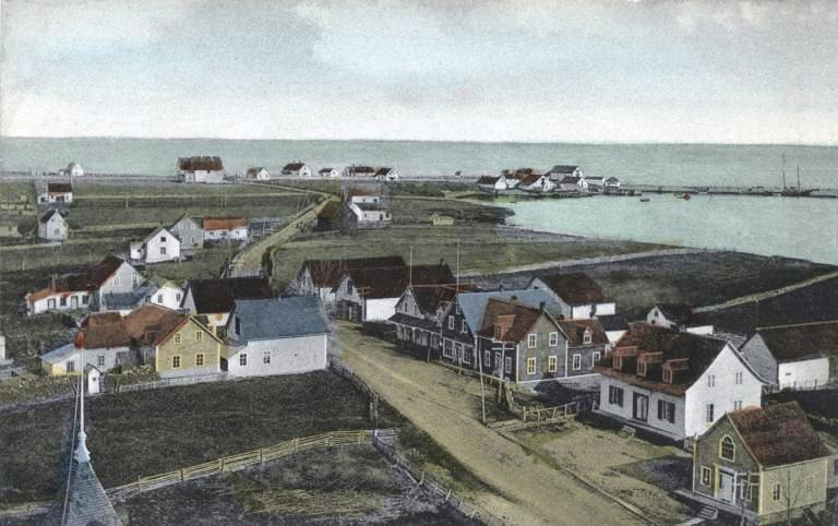 Print (photomechanical), East view of Grand River, Gaspé County, QC, about 1910, Coloured ink on paper mounted on card - Collotype - 9 x 13.9 cm